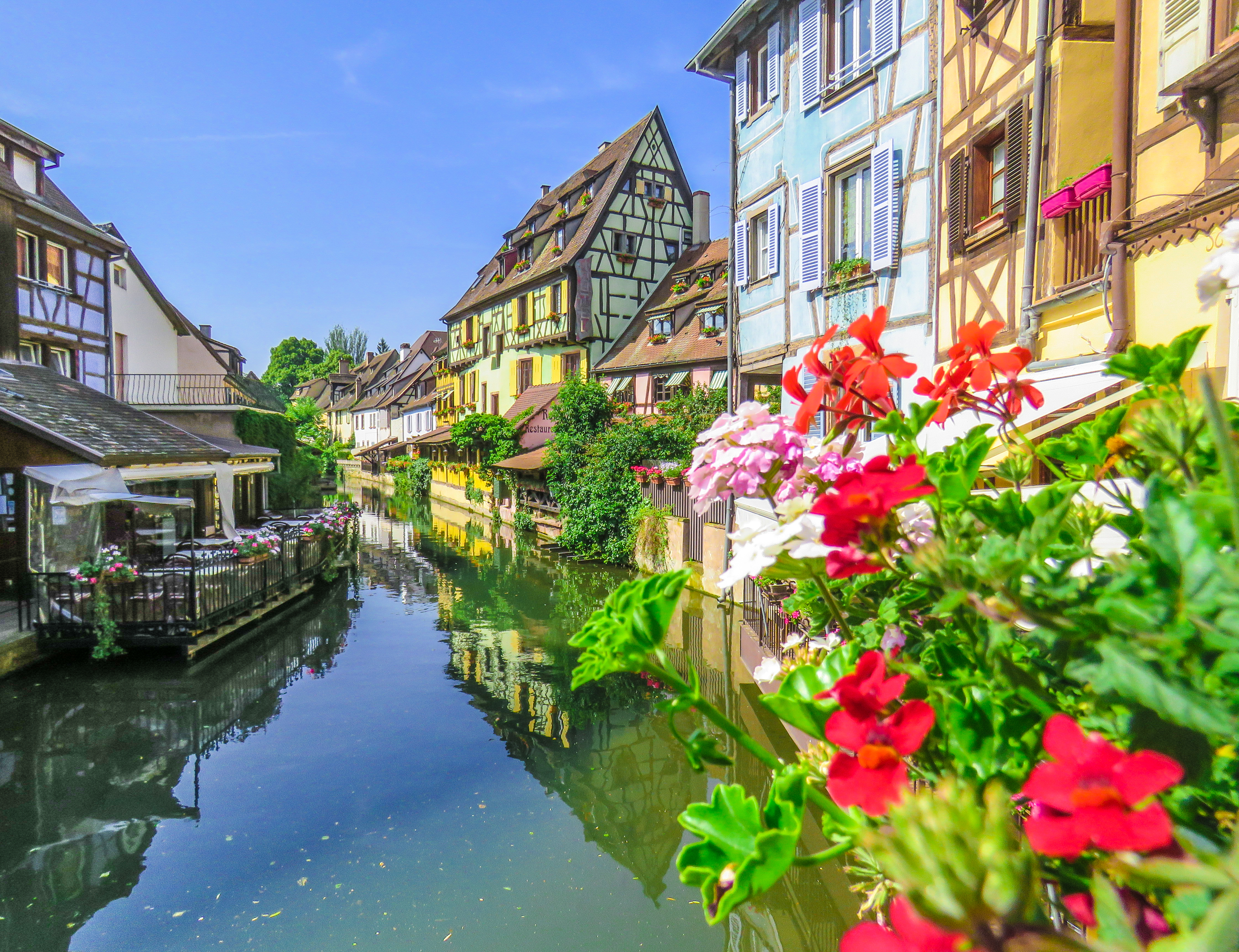 Colmar colmar